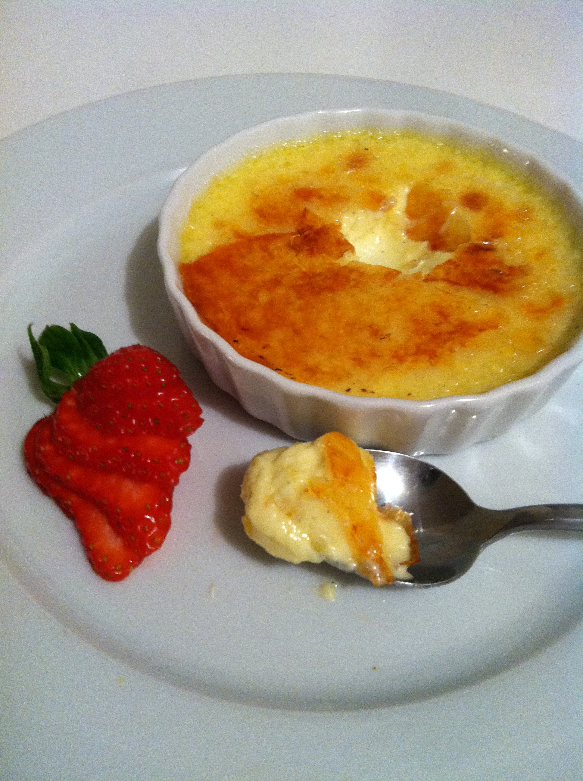 Vanilla creme brulee and a single strawberry. Prepared, photographed and consumed by me.